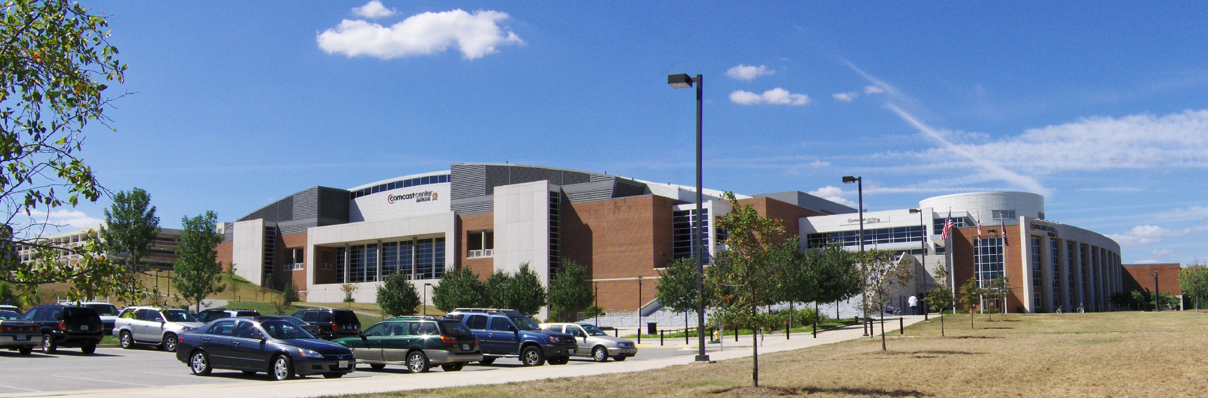 Comcast Center at the University of Maryland, College Park, panorama. (Based on Image:Comcast Center at UMCP, main entrance panorama, August 21, 2006.jpg, cropped by User:Ddxc — somewhat less panorama, removed uninteresting sky/ground.)